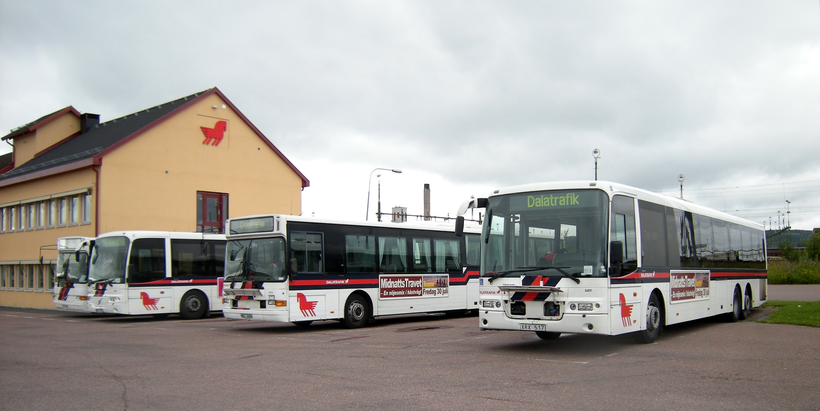 Four Volvo buses in Borlänge, Sweden. Dalatrafik Borlänge.